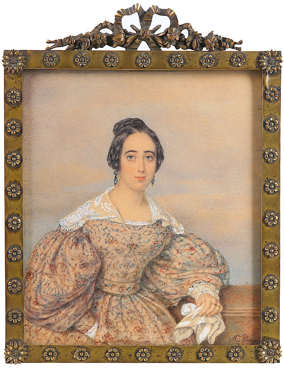 A Lady, in buff-coloured dress with floral design, white lace sleeves and collar, a white handkerchief in her left hand, gold drop earrings, her brown hair plaited Signed and dated 'Mlle Pfenninger/ 1834' lower right Watercolour on card Gilt metal frame, the border with applied flower decoration and ribbon cresting, easel back rectangular, 145mm high